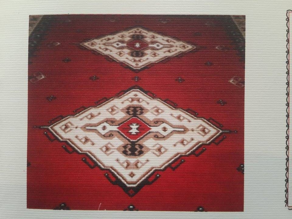 Sixhadet dhe qilimat Kuksiane